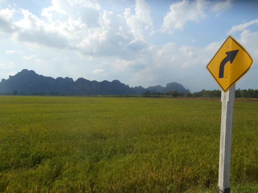 Thai road sign near Tham Naresuan in Noen Maprang District, Phitsanulok Province